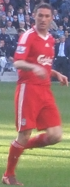 Robbie Keane